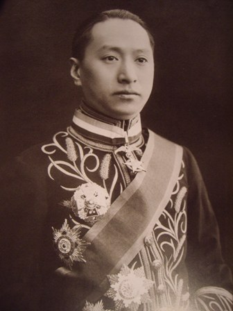 Vi Kyuin Wellington Koo (traditional